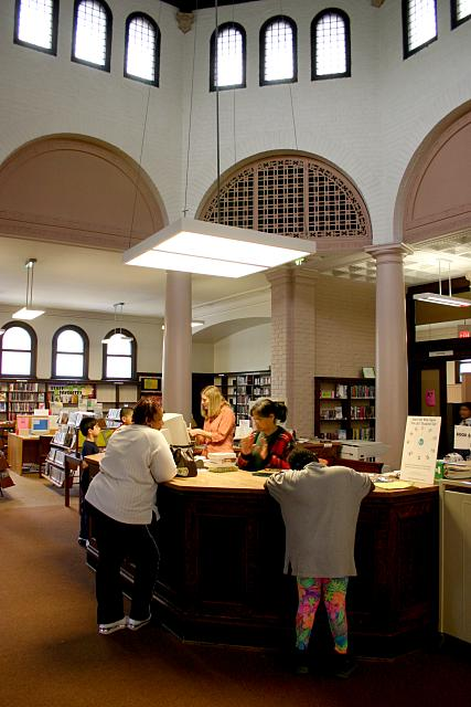 Carnegie library interior, Cincinnati, Ohio, USA, 2004 by Rick Dikeman